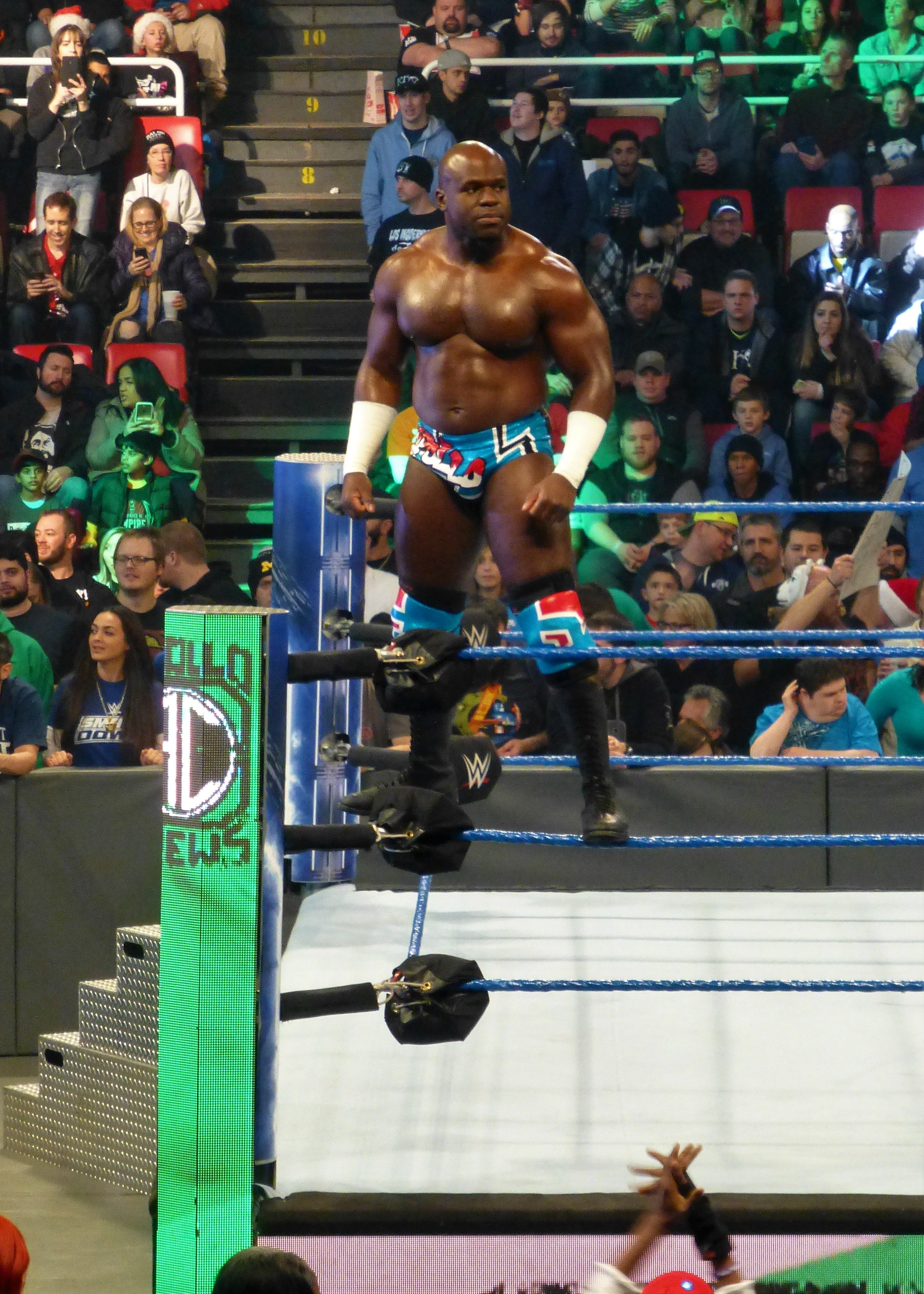 Apollo Crews on the top rope